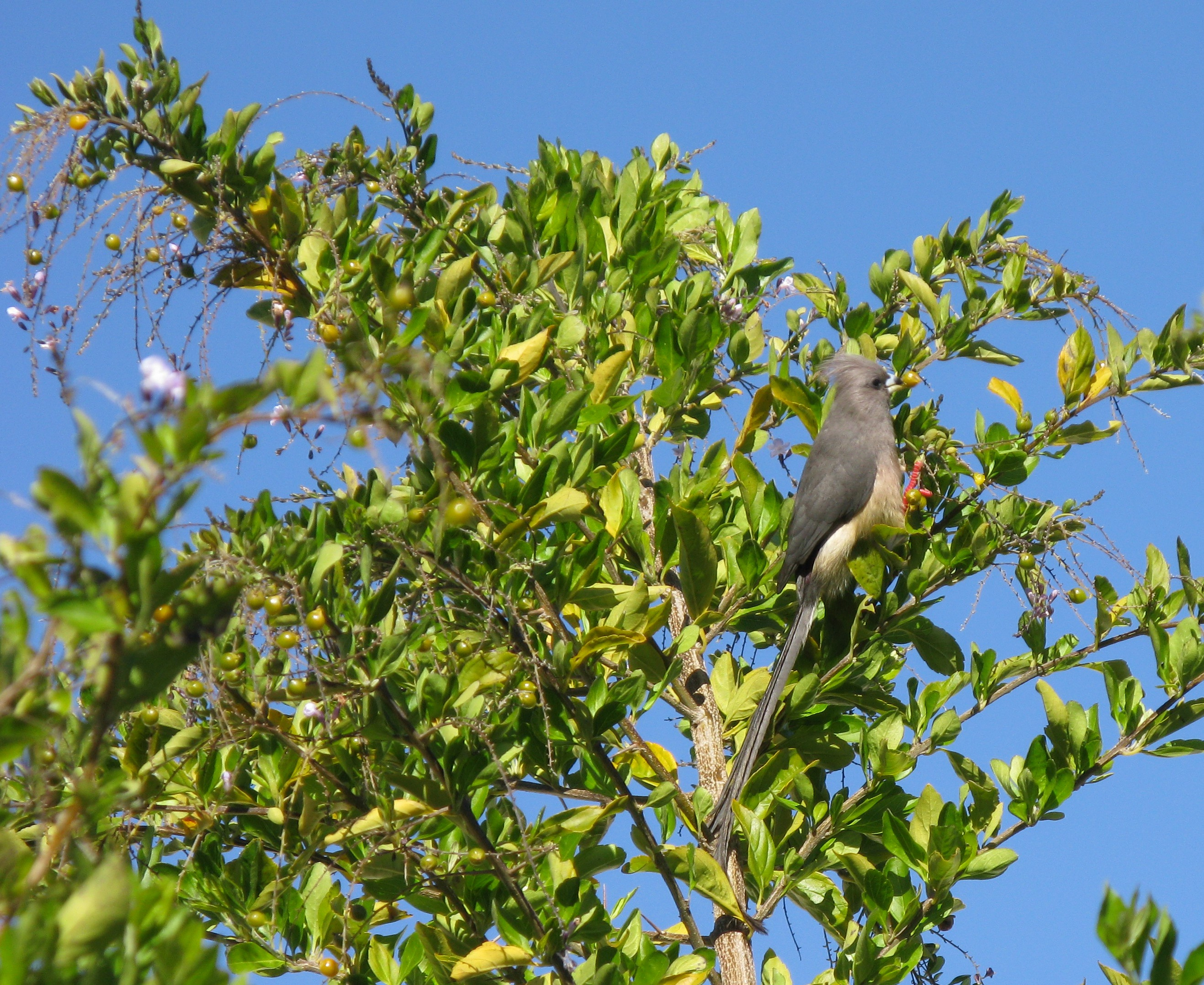 Colius colius, the White-backed Mousebird, feeding on berries, probably of Duranta erecta